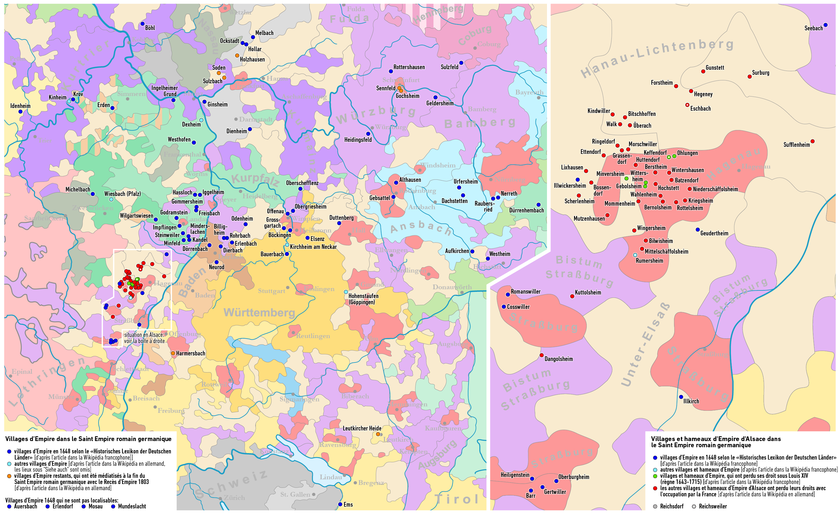 Map: Imperial Village distribution in the Holy Roman Empire